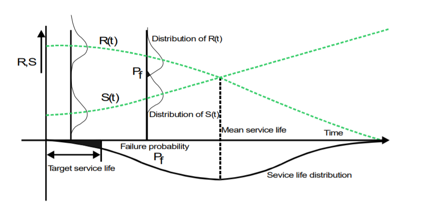 Graphical rapresentation of failure probability and target service life in performance-based service life models for reinforced concrete - Duracrete 2000